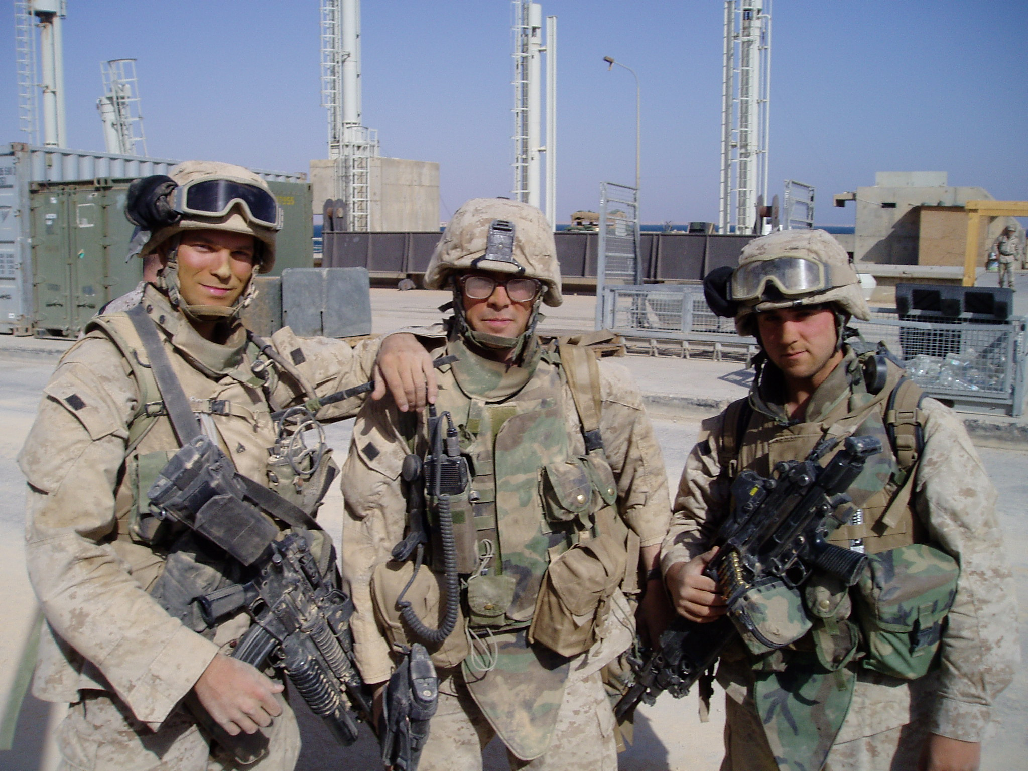 My fire team from left to right: Cpl. McCauley, LCpl. Cain, and LCpl. Flynn. We just got off a 7 ton truck that went through some very dusty terrain. We are part of 1st platoon, 2nd squad.My Team aka The Raiders